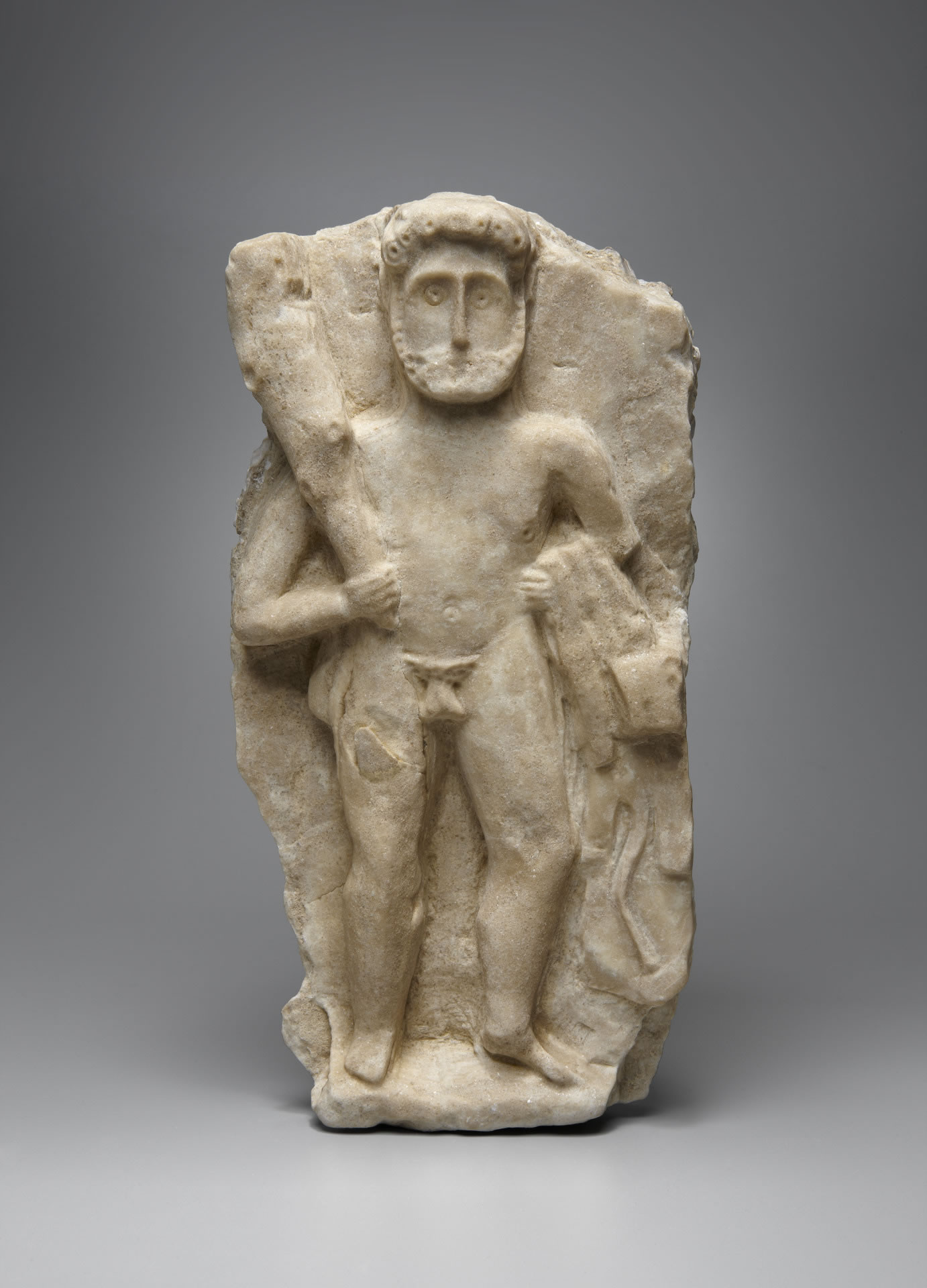 Relief showing Herakles, Yale 1935.51